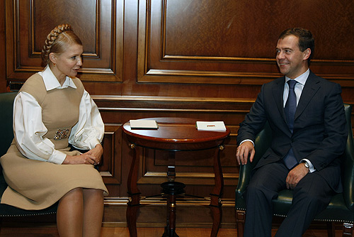 Gorki, Moscow region. With Prime Minister of Ukraine Yulia Timoshenko.